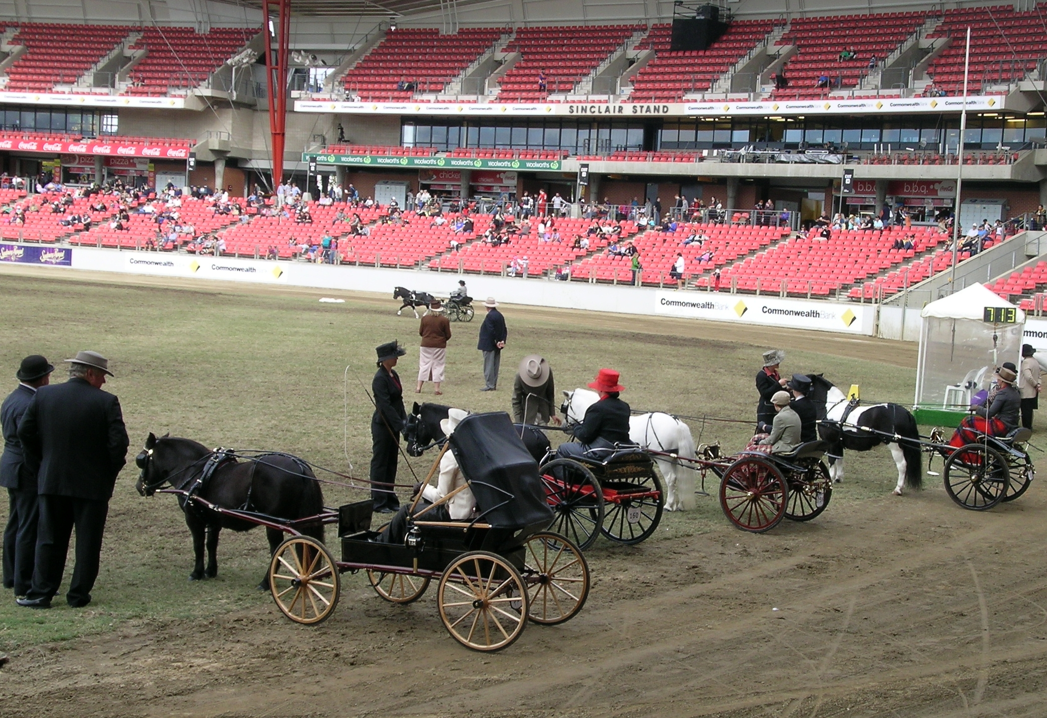 Shetland ponies competing in a harness event at the Sydney Royal Easter Show.